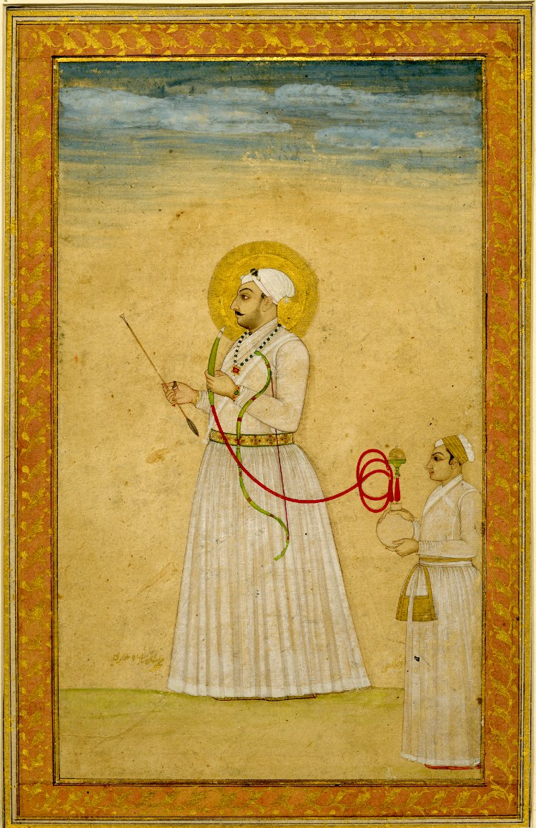 Muhammad Shah; single-page tinted drawing on a detached album folio. Album long dispersed. A standing portrait of Muhammad Shah holding a bow and arrow, as well as a huqqa pipe. Ink, opaque watercolour and gold on paper.